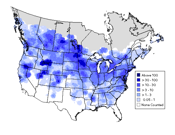 Distribution and abundance map of Canada goose Branta canadaensis between 1994-2003 Sauer, J. R., J. E. Hines, and J. Fallon. 2007. The North American Breeding Bird Survey, Results and Analysis 1966 - 2006. Version 10.13.2007. USGS Patuxent Wildlife Research Center, Laurel, MD